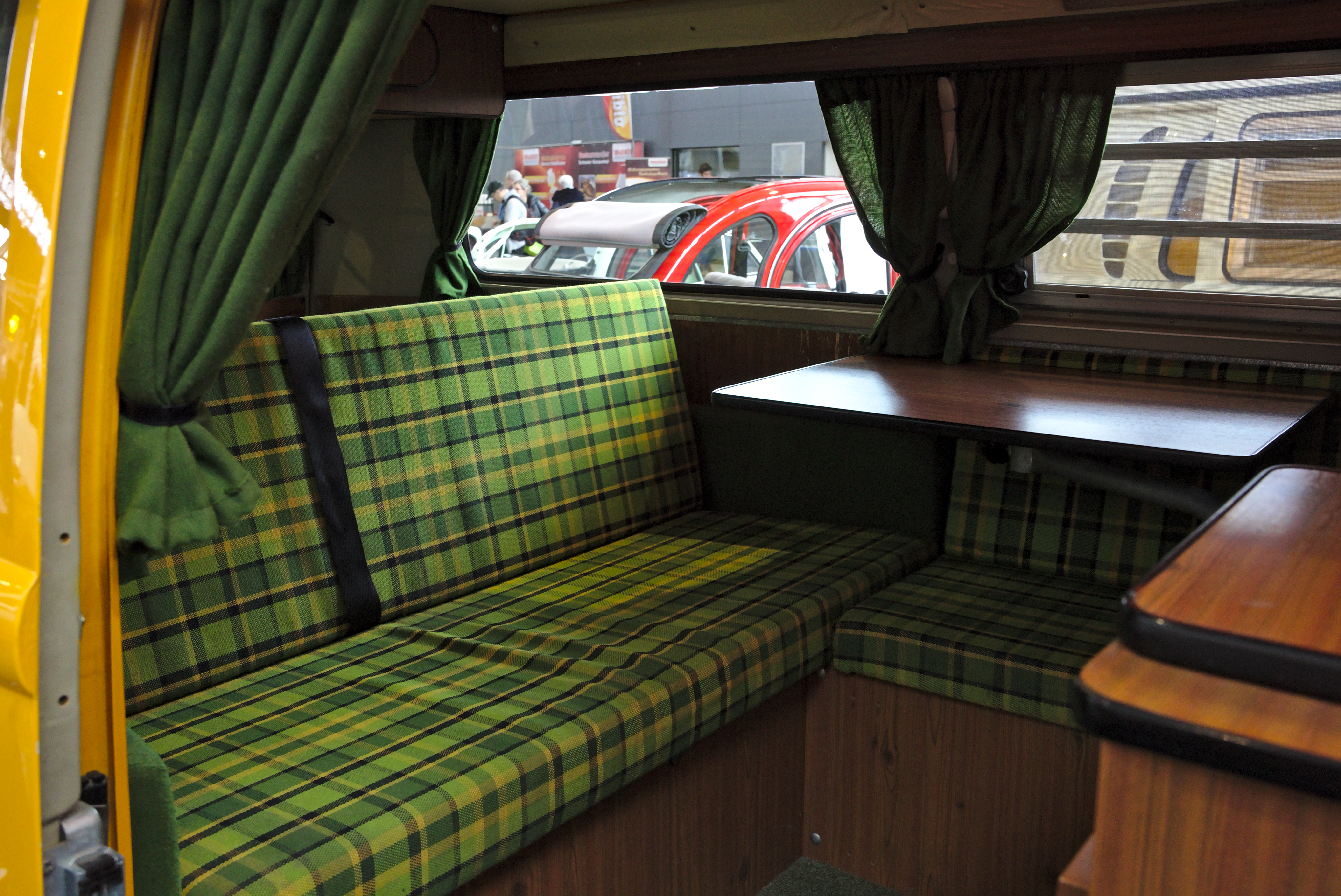 VW T1 Westfalia at Retro Classics 2018